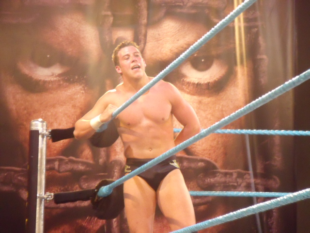 3rd generation superstar, son of the Million Dollar Man, And Legacy Member Ted Dibiase's younger brother. 2009.